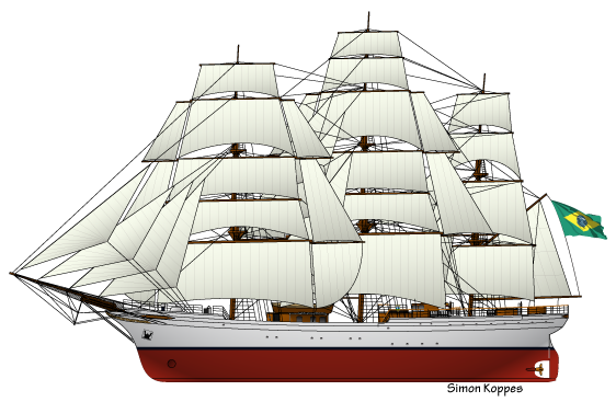 Drawing of the Brazilian sailing ship Cisne Branco